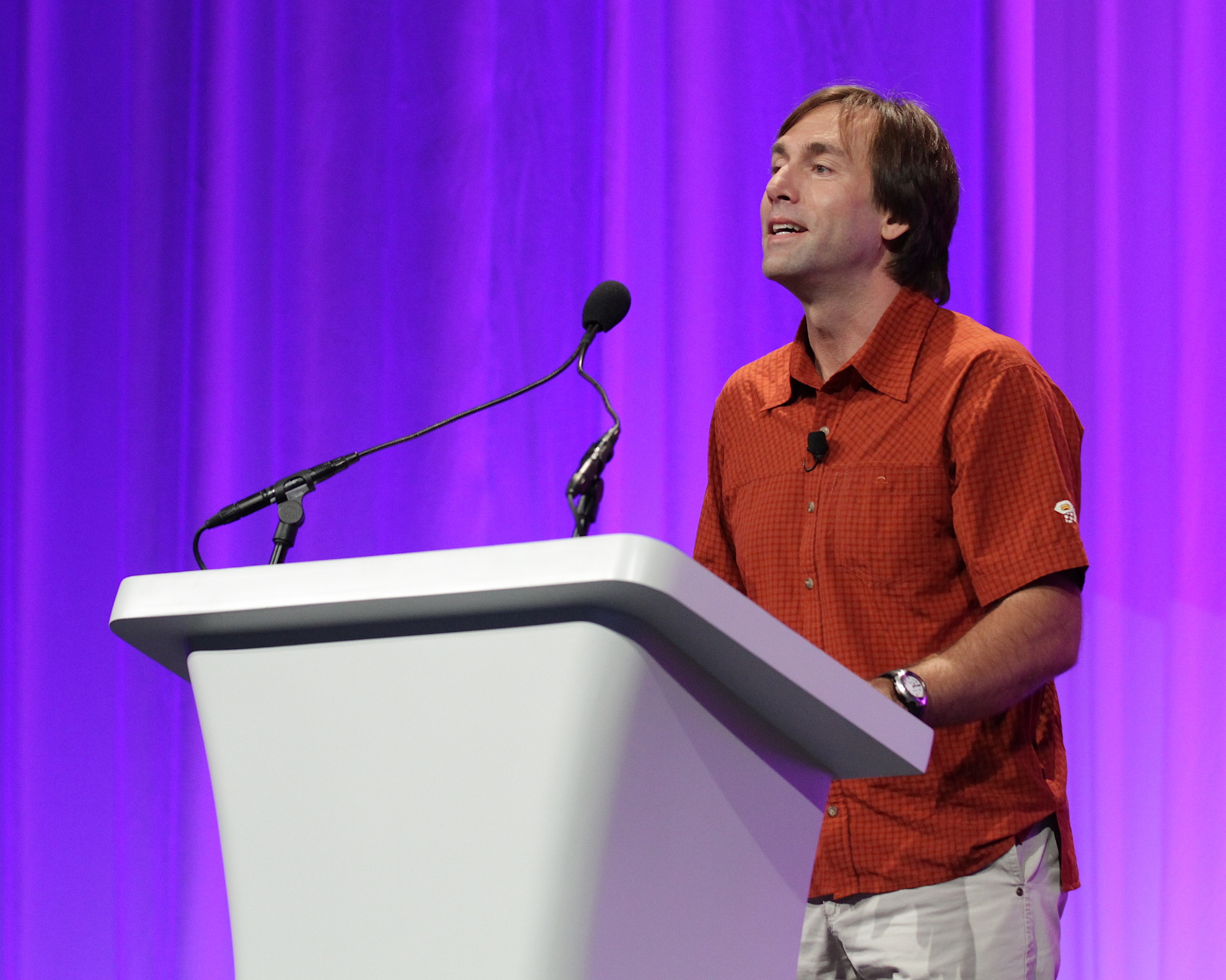 Erik Weihenmayer presenting on stage.